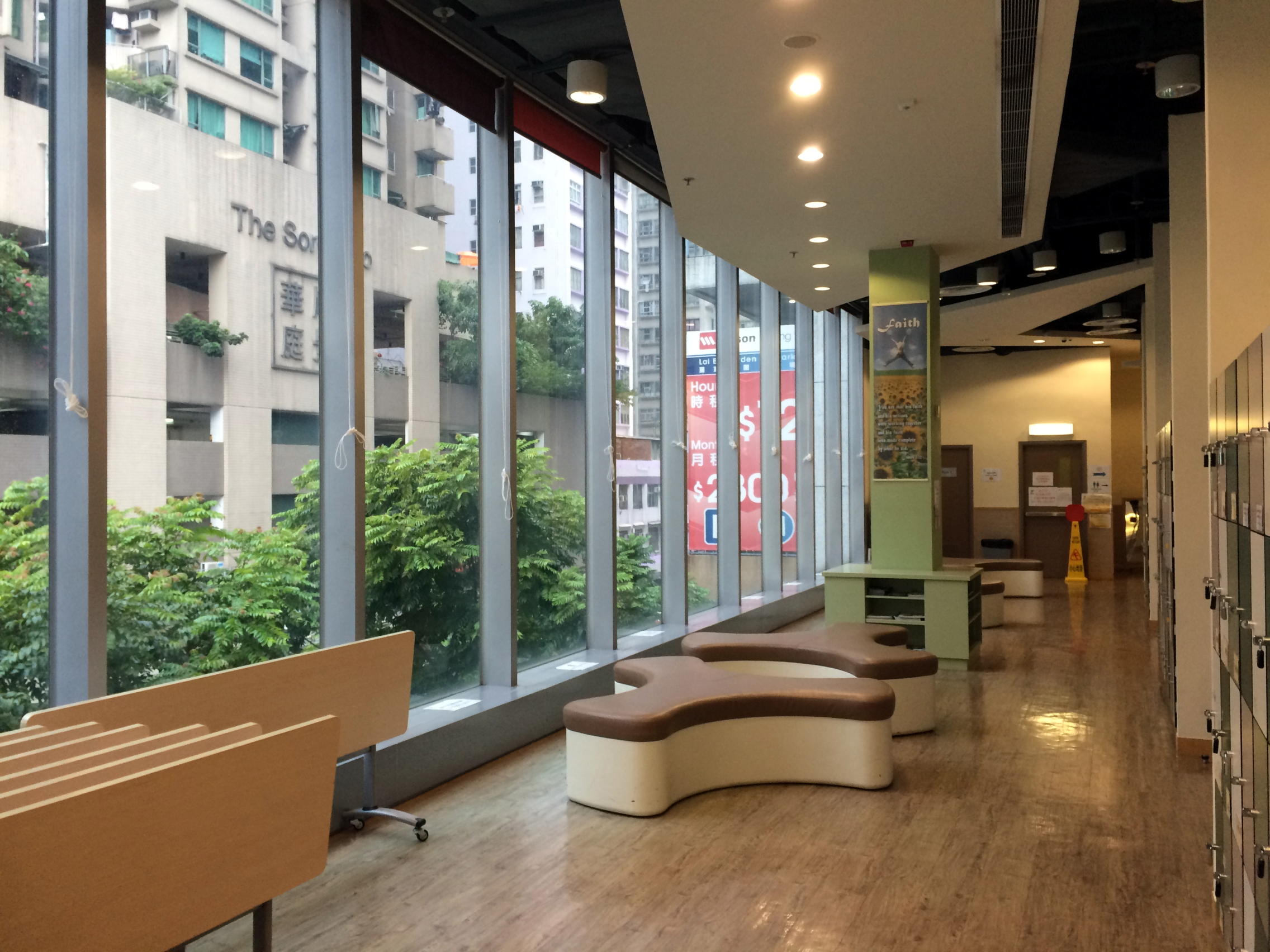 YMCA of Hong Kong Beacon Centre Lifelong Learning Institute